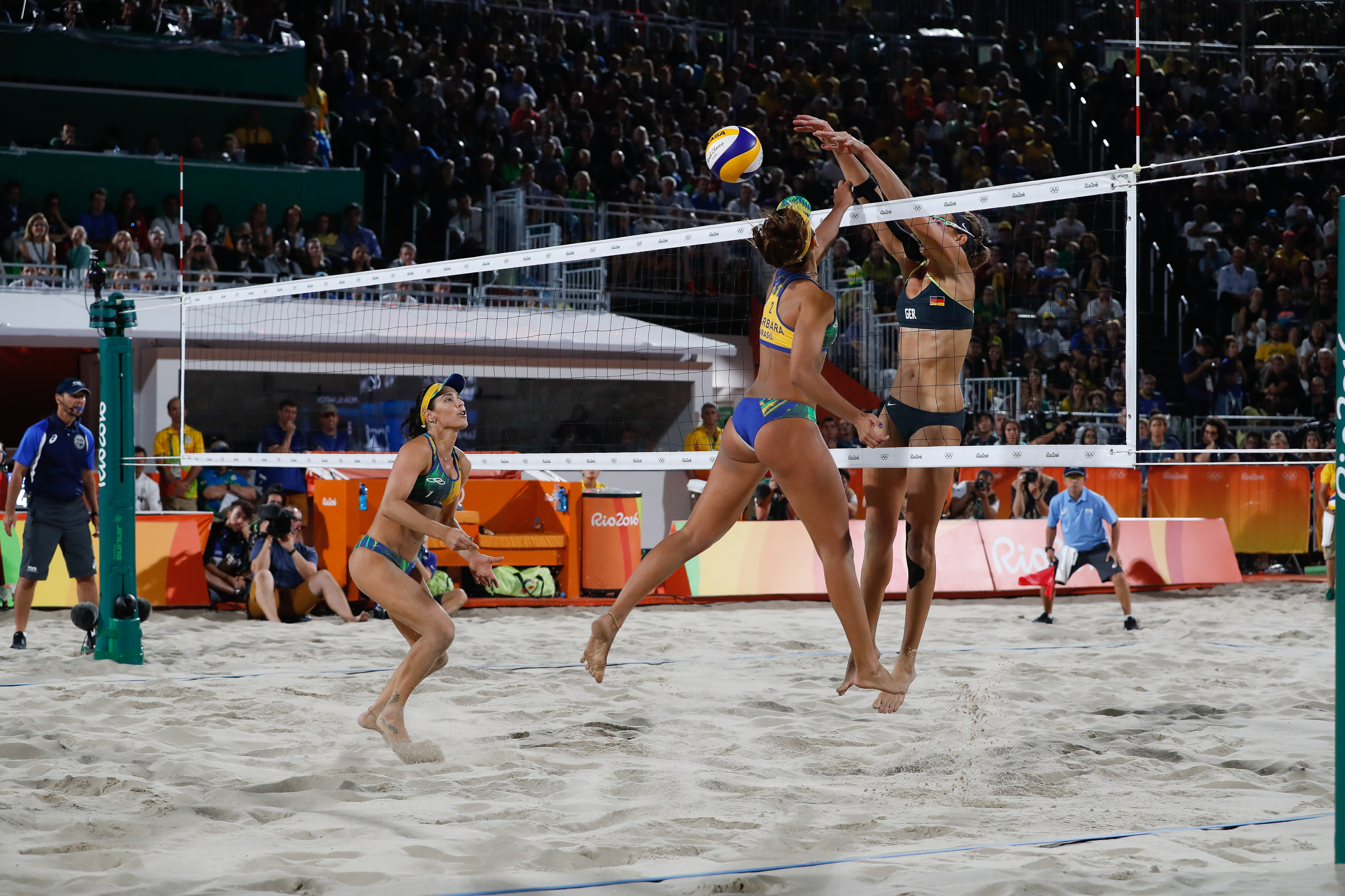 Rio de Janeiro - As alemãs Ludwig e Walkenhorst, levam ouro na final do vôlei de praia, contra as brasileiras, Ágatha e Bárbara, nos Jogos Olímpicos Rio 2016 ( Fernando Frazão/Agência Brasil)